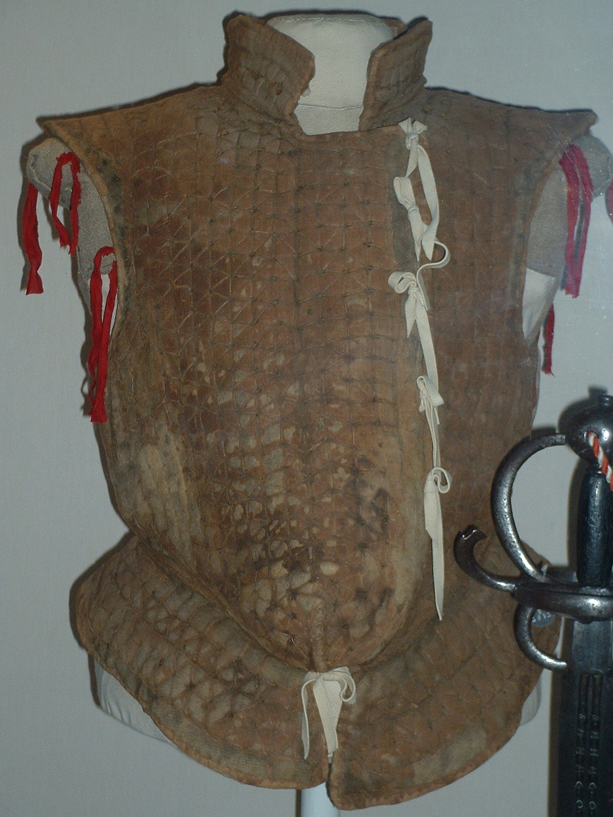 Jack of plate, English, c1580-90, Royal Armoury, Leeds Museum legend reads: Jack of plate English, about 1580-90 Formed of small iron plates sewn between layers of felt and canvas. It is unique in retaining its matching sleeves. Both the jack and the sleeves are styled according to contemporary civilian fashion. Photographed by me (Gaius Cornelius), at the Royal Armoury, Leeds 08-Jun-06.